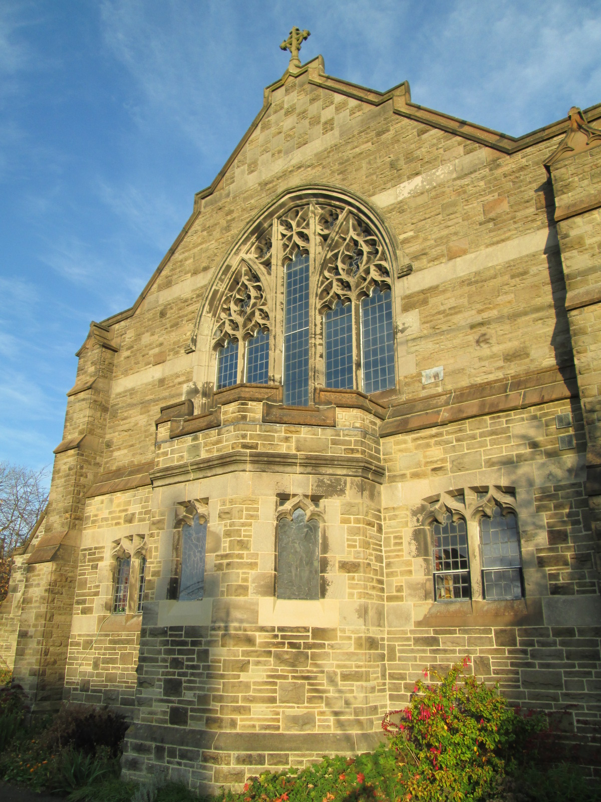 St Oswald's Church, in Bollington, Cheshire: the south side.